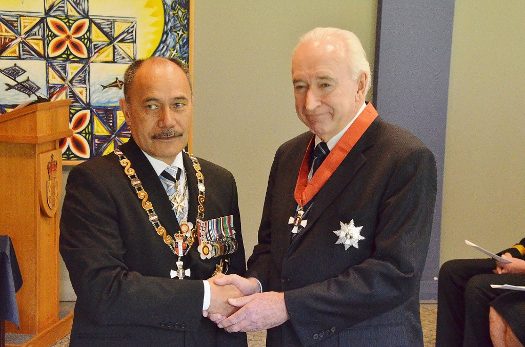 The Honourable Sir Jim McLay (right), of Matakana, after his investiture as a Knight Companion of the New Zealand Order of Merit, for services to business and the State, by the governor-general, Sir Jerry Mateparae, on 27 August 2015